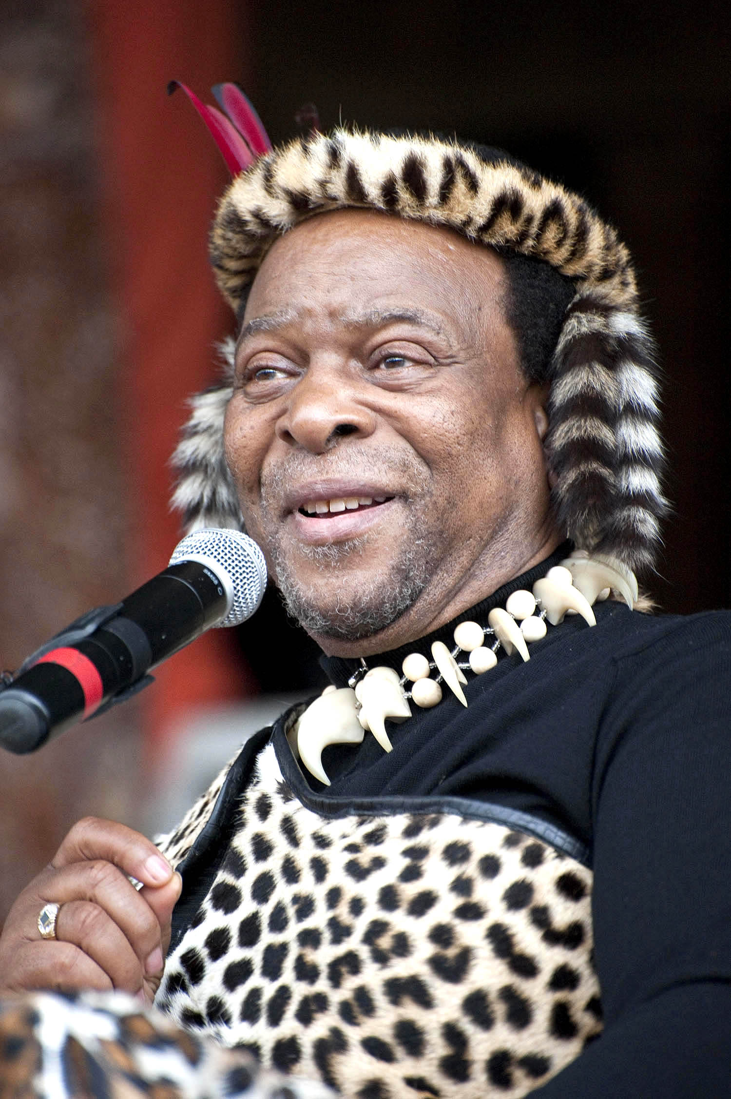 King Goodwill Zwelithini speaking at the ceremony to celebrate 40 years as monarch held in Ondini Cultural Museum in Ulundi on the 27 August 2011.